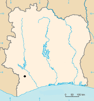 Location of Taï National Park, in Côte d'Ivoire.